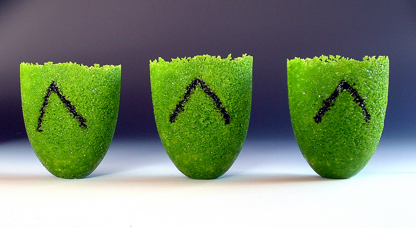 Three delicate pate de verre vessels by New Zealand glass artist Sue Hawker